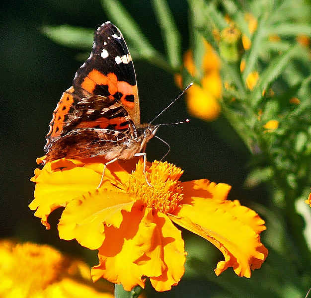 Indian Red Admiral Vanessa indica. Shimla, Himachal, India.